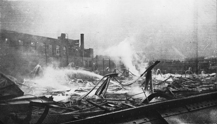 Photograph Arena fire, corner Wood Avenue & Western, Westmount, QC, 1917 Alfred Walter Roper 1917, 20th century MP-1977.76.168